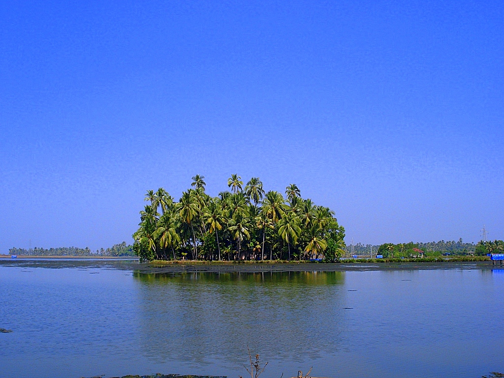 Palms in Kumbalangy, Ernakulam